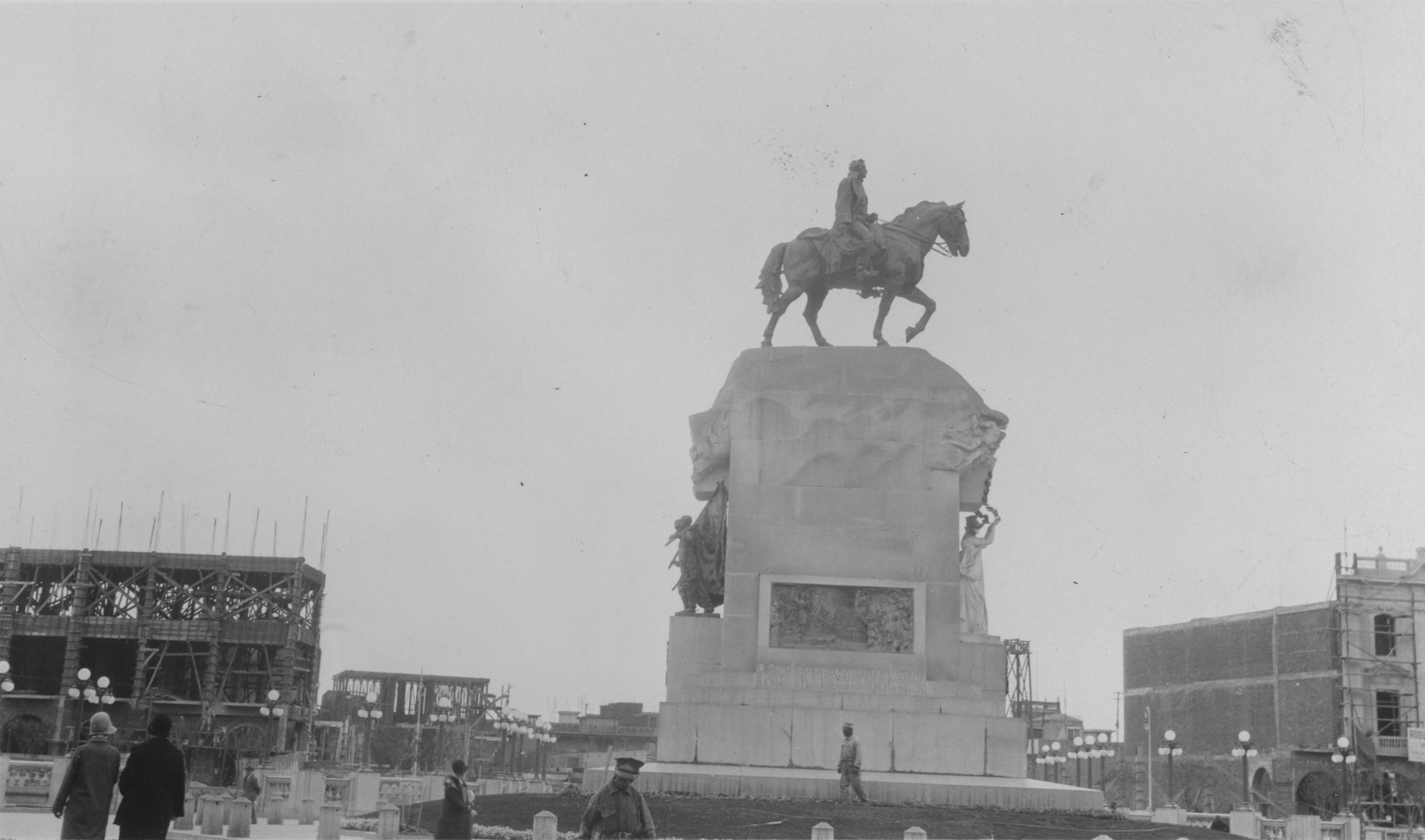 Monument to José de San Martín located in the Plaza San Martín in Lima, which is near the Hotel Bolivar. The sculptor was Mariano Benlliure.